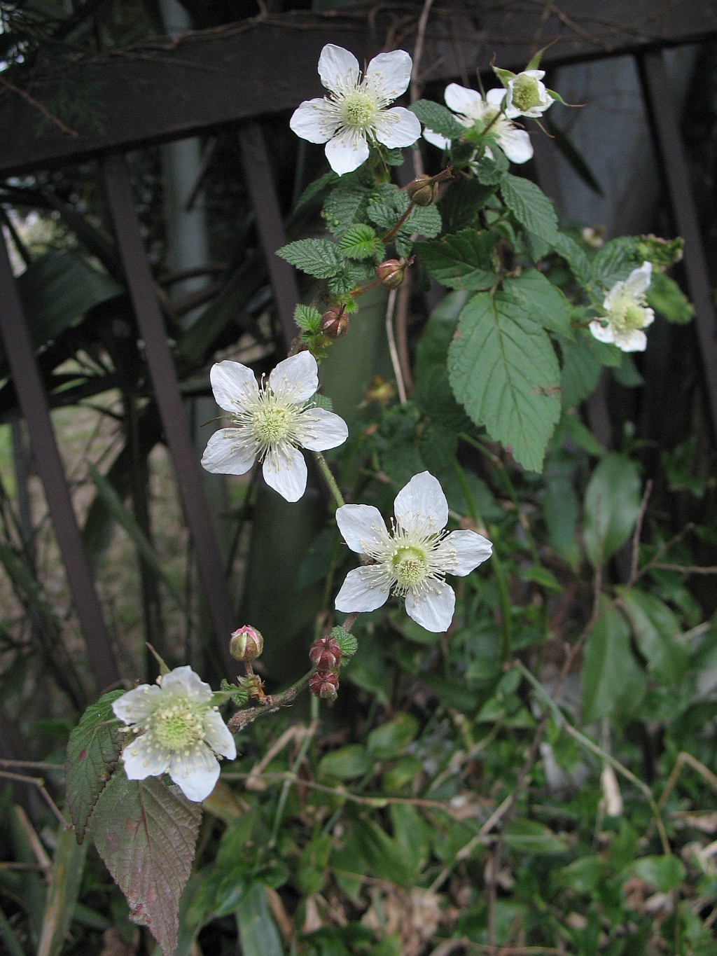 Photograph of Rubus hirsutus, taken in Machida city, Tokyo, Japan.